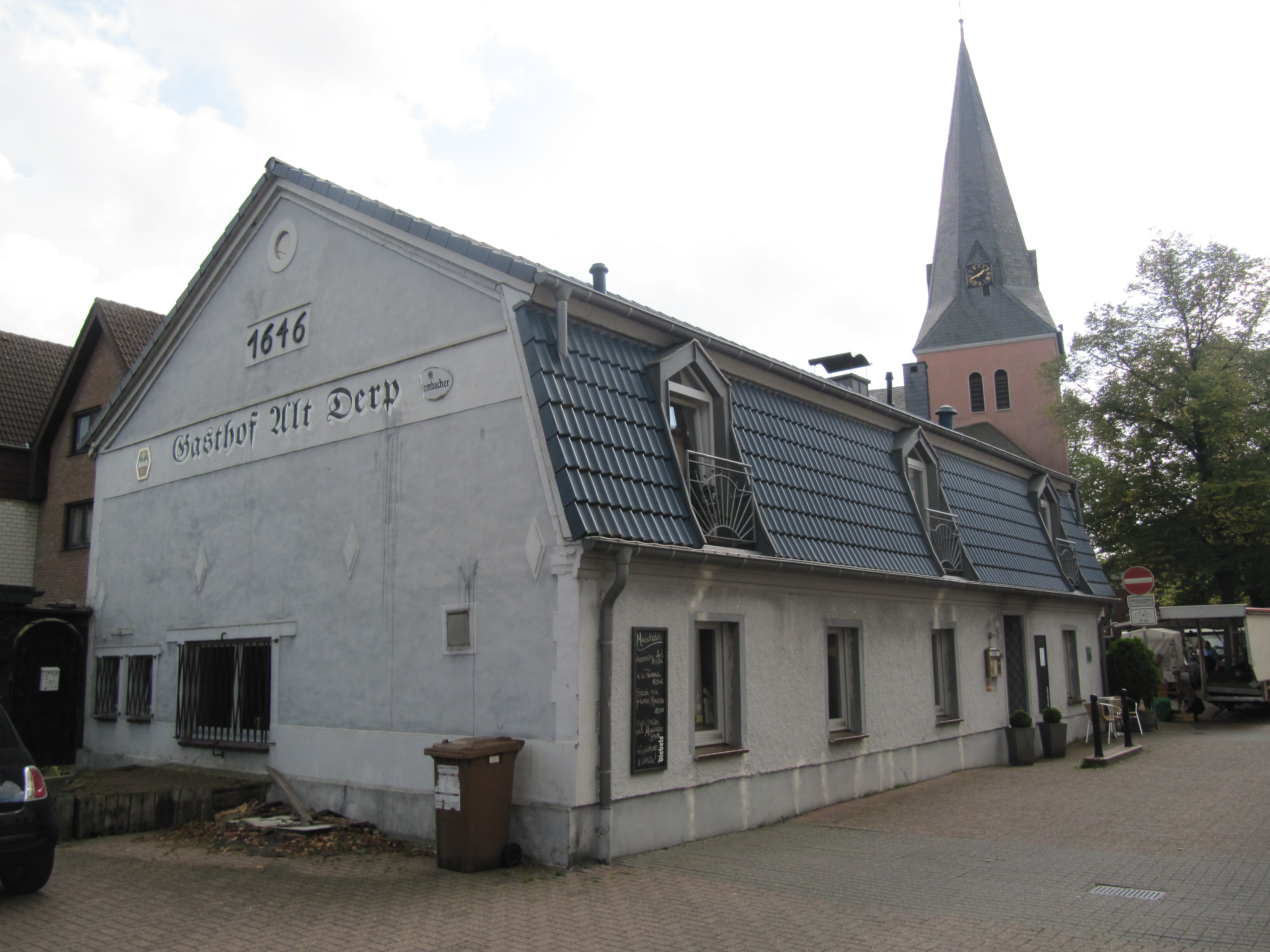 Neukirchen-Vluyn, district of Wesel, North Rhine-Westphalia, Germany, part Neukirchen. Alt Derp. The building from the 17th century, the oldest inn in town. Tower of the Evangelical church.